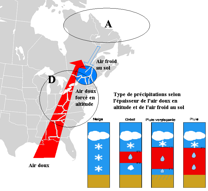 Meteorological situation for a freezing rain event around the Great Lakes and St. Lawrence River Valley of North America. This image has been done using File:BlankMap-USA-states-Canada-provinces, HI closer.svg and File:Type_de_precipitation_dans_un_blocage_air_froid.svg.